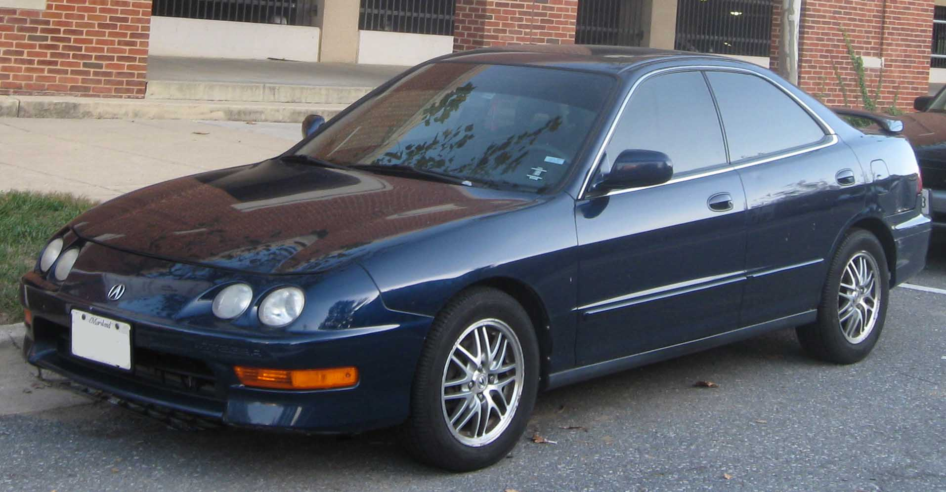 Acura Integra sedan photographed in College Park, Maryland, USA.